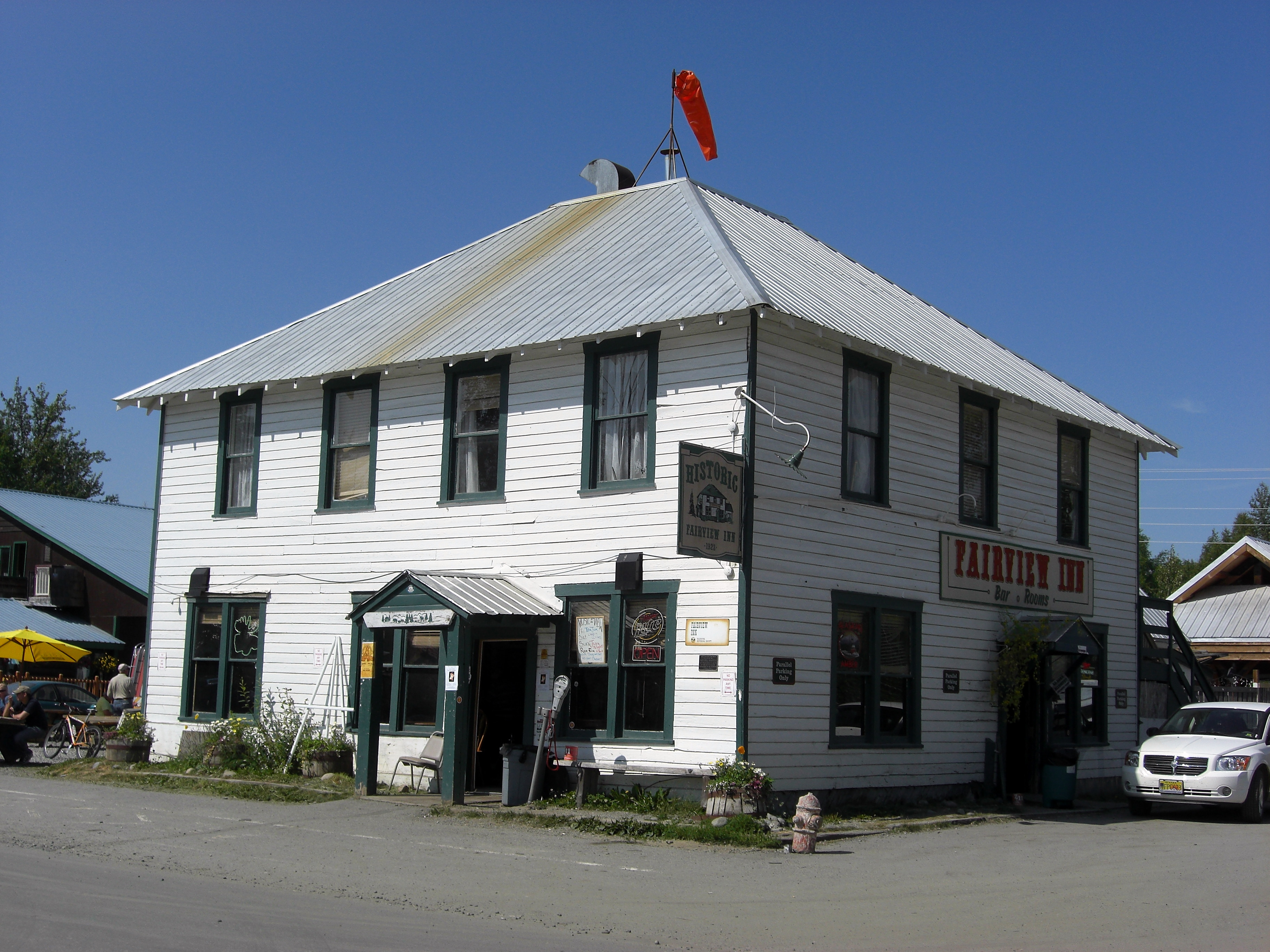 Fairview Inn in Talkeetna. On the NRHP in Matanuska-Susitna Borough.